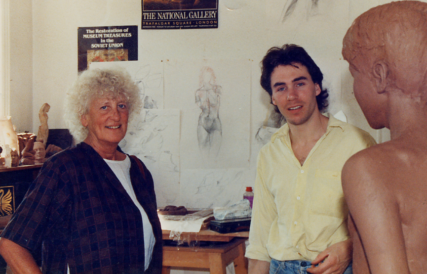 Dame Elizabeth Frink and John McKenna, photo taken when McKenna was a sculpture student at the Sir Henry Doulton School of sculpture.